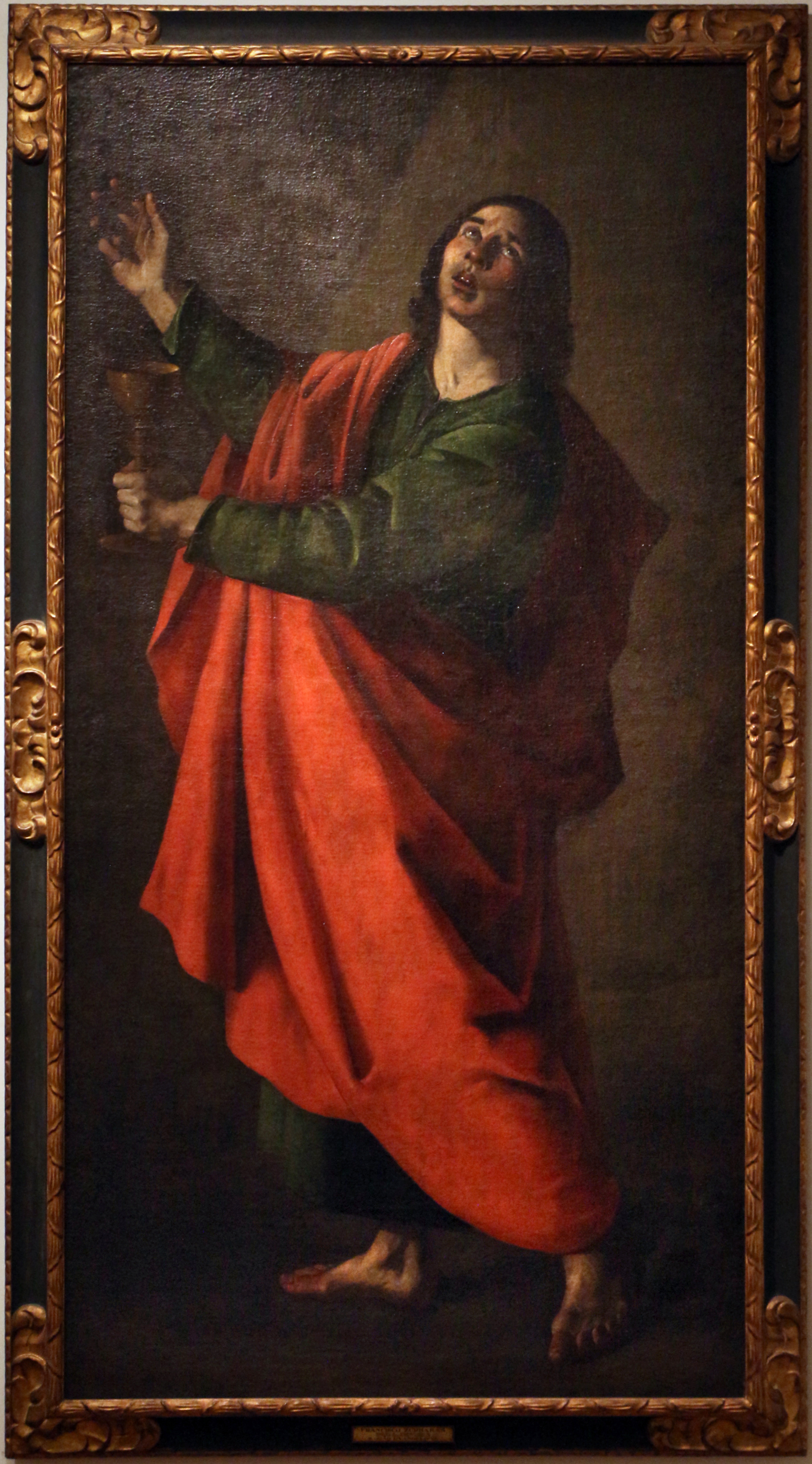 Spanish paintings in the Museu Nacional de Arte Antiga